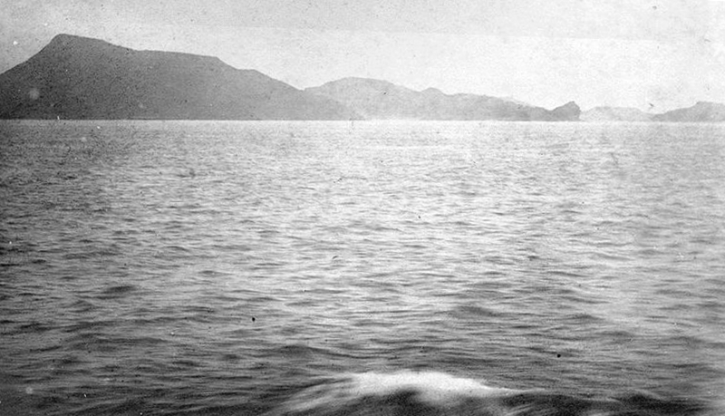 Photograph showing part of the Strait of Bab el-Mandeb looking east towards the Yemeni coast. The promontory on the left is Ras Menheli, the highest of the half dozen promontories and outcrops at the tip of the Bab el-Mandeb Peninsula, also known as the Sheikh Said Peninsula. Taken by a passenger of a passing steamer 10 January 1884.